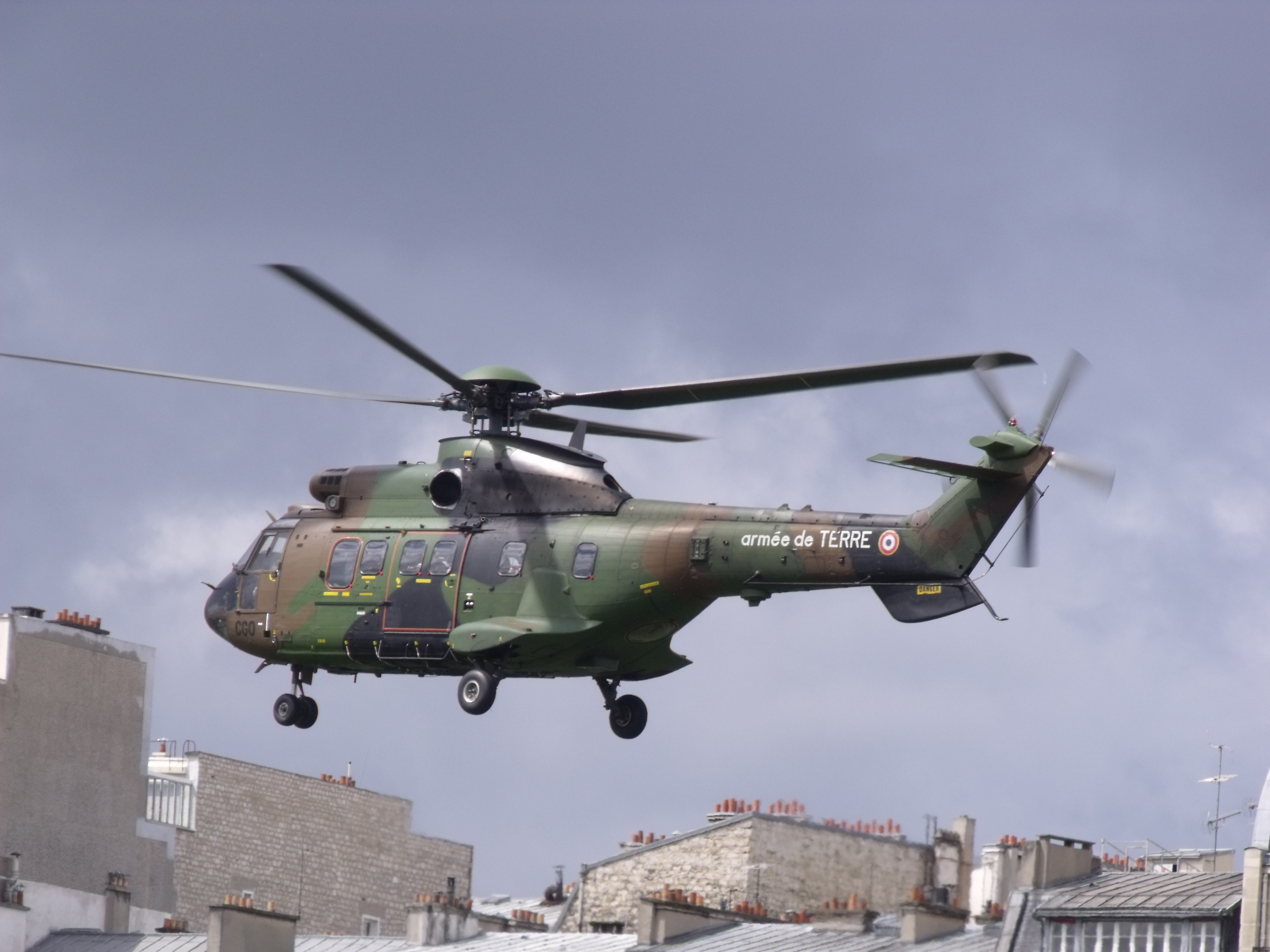 French Army support helicopter, seen here in Paris for Bastille Day 2012.